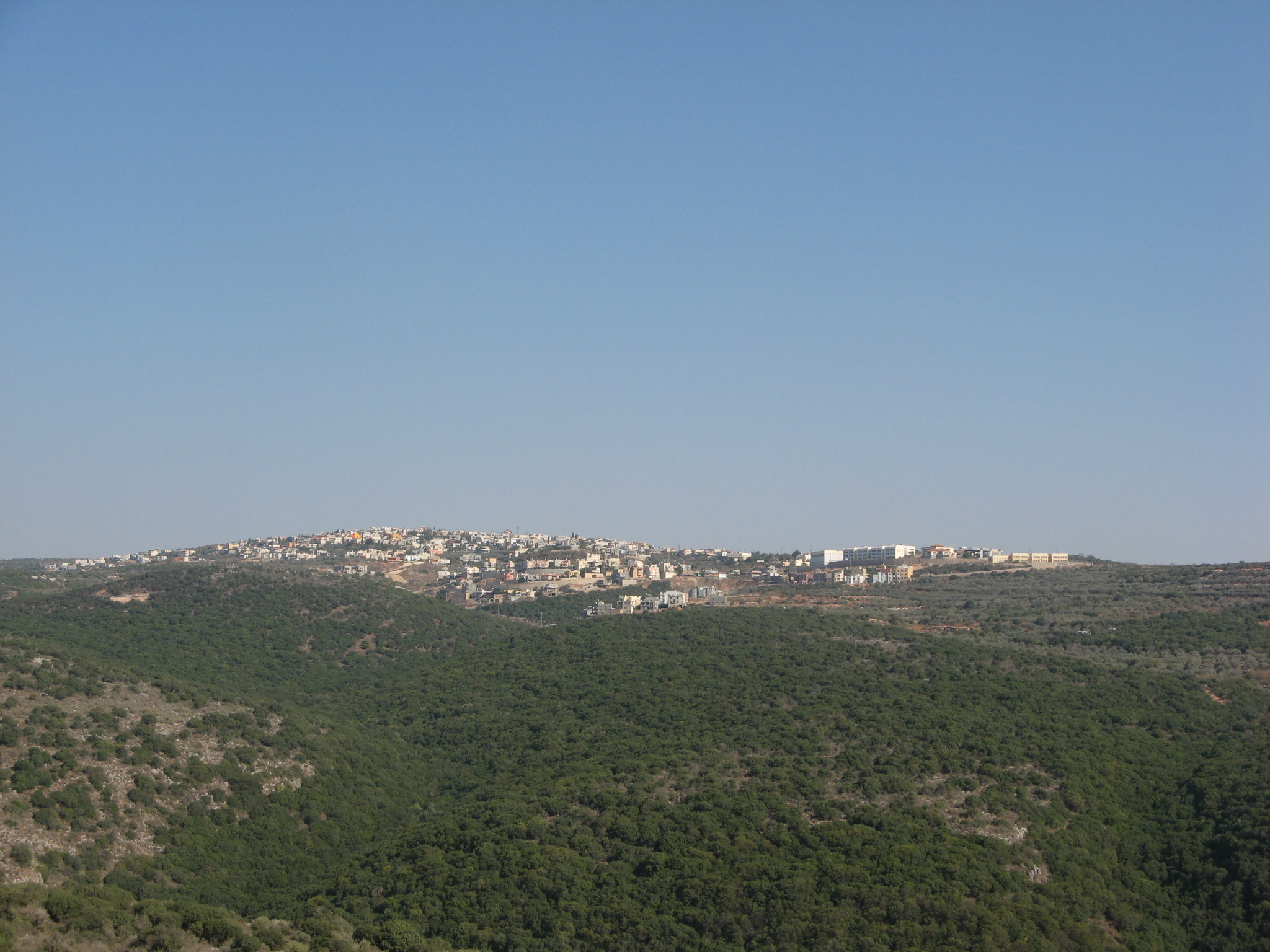 Yanoach from Y'chiam